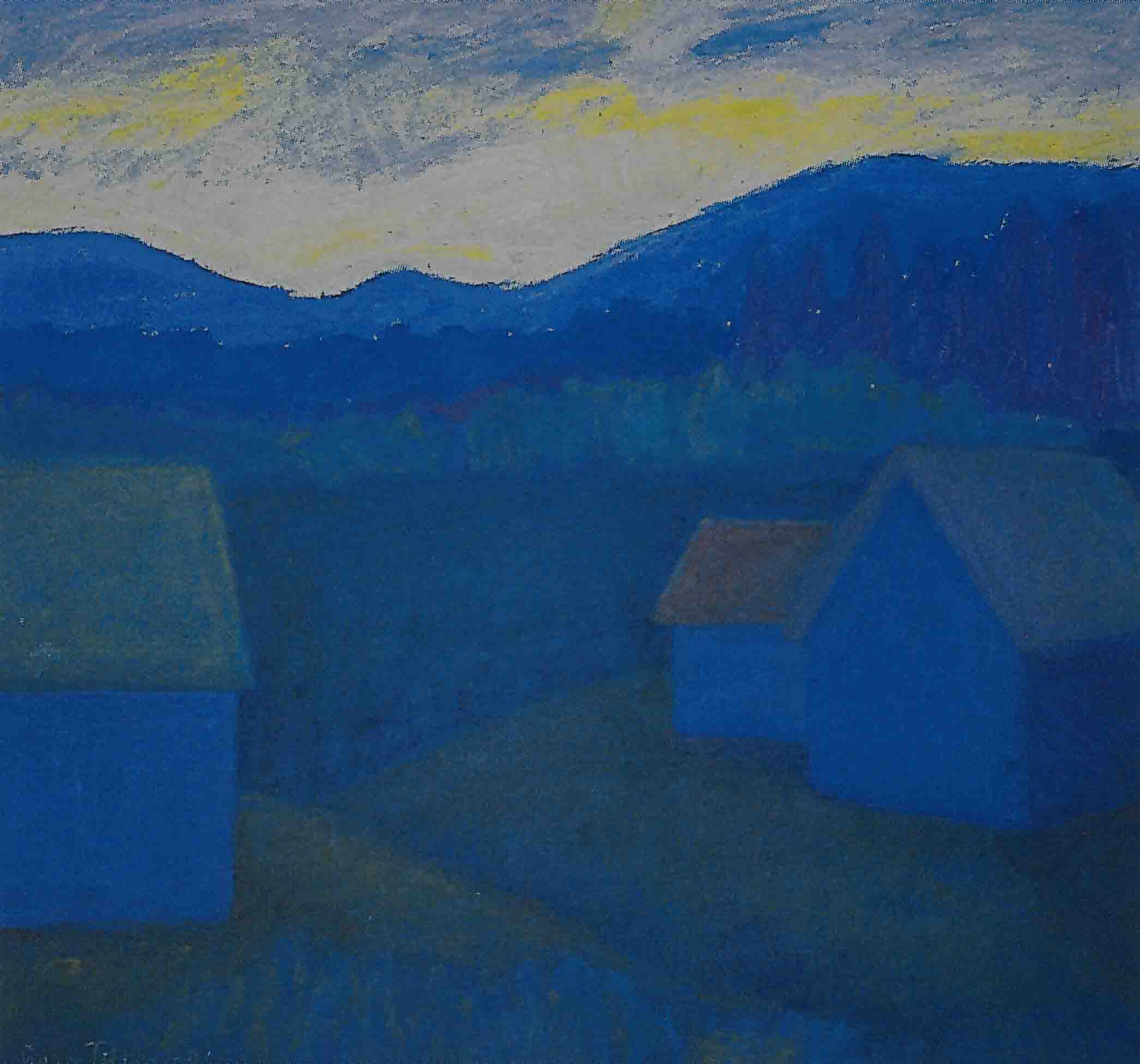 debut painting by the Norwegian artist Lars Tiller